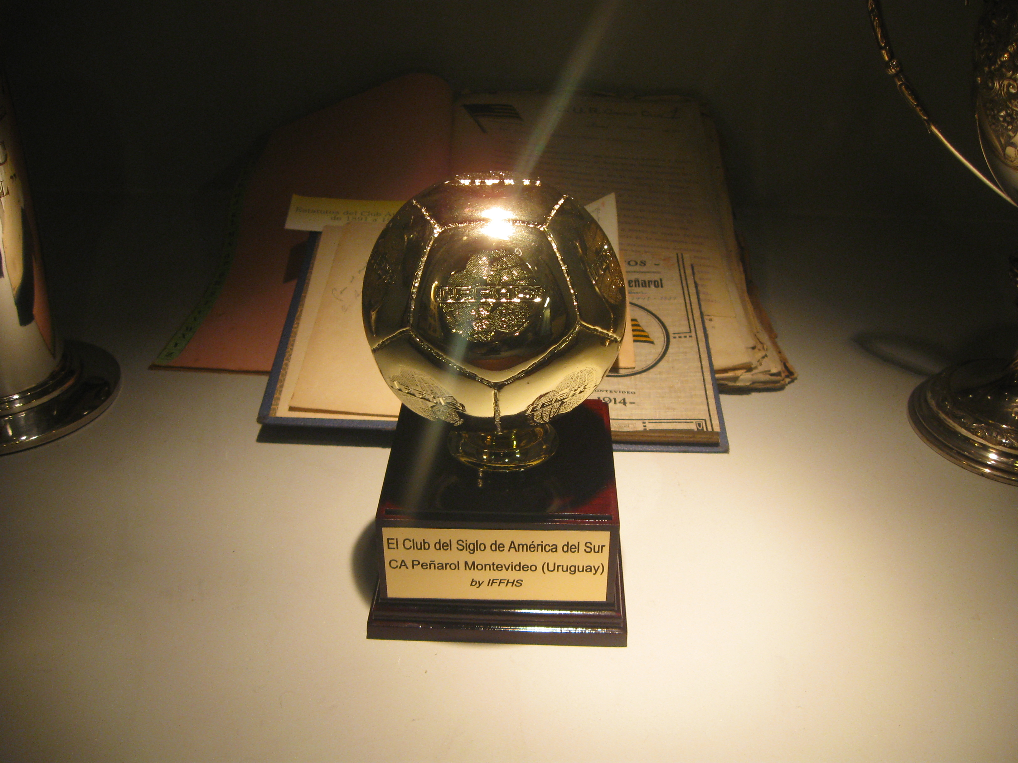 Trophy given to Peñarol as Southamerica Club of the Century by the IFFHS, displayed in Peñarol's museum.